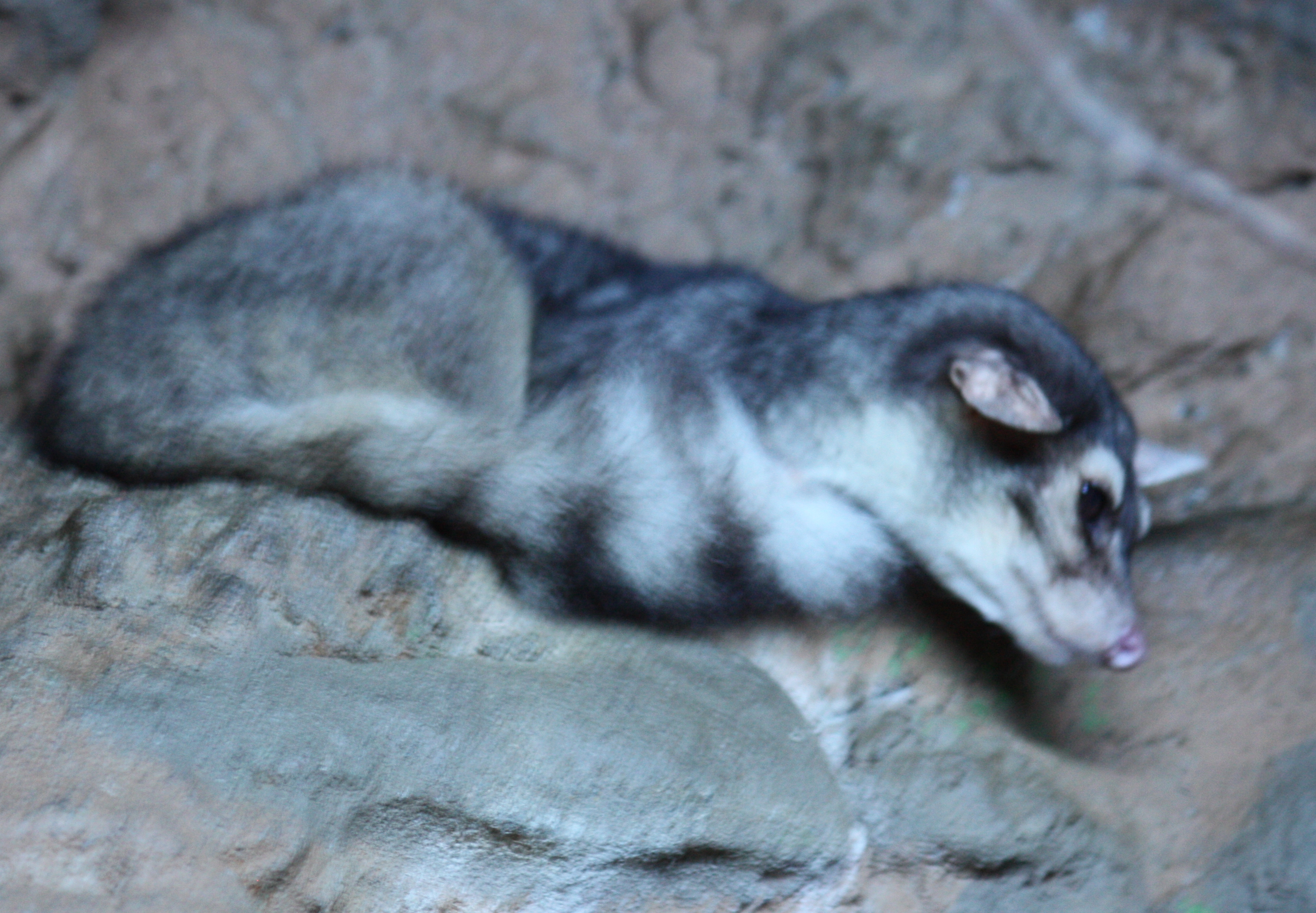 Cacomistle Bassariscus sumichrasti at the Cincinnati Zoo